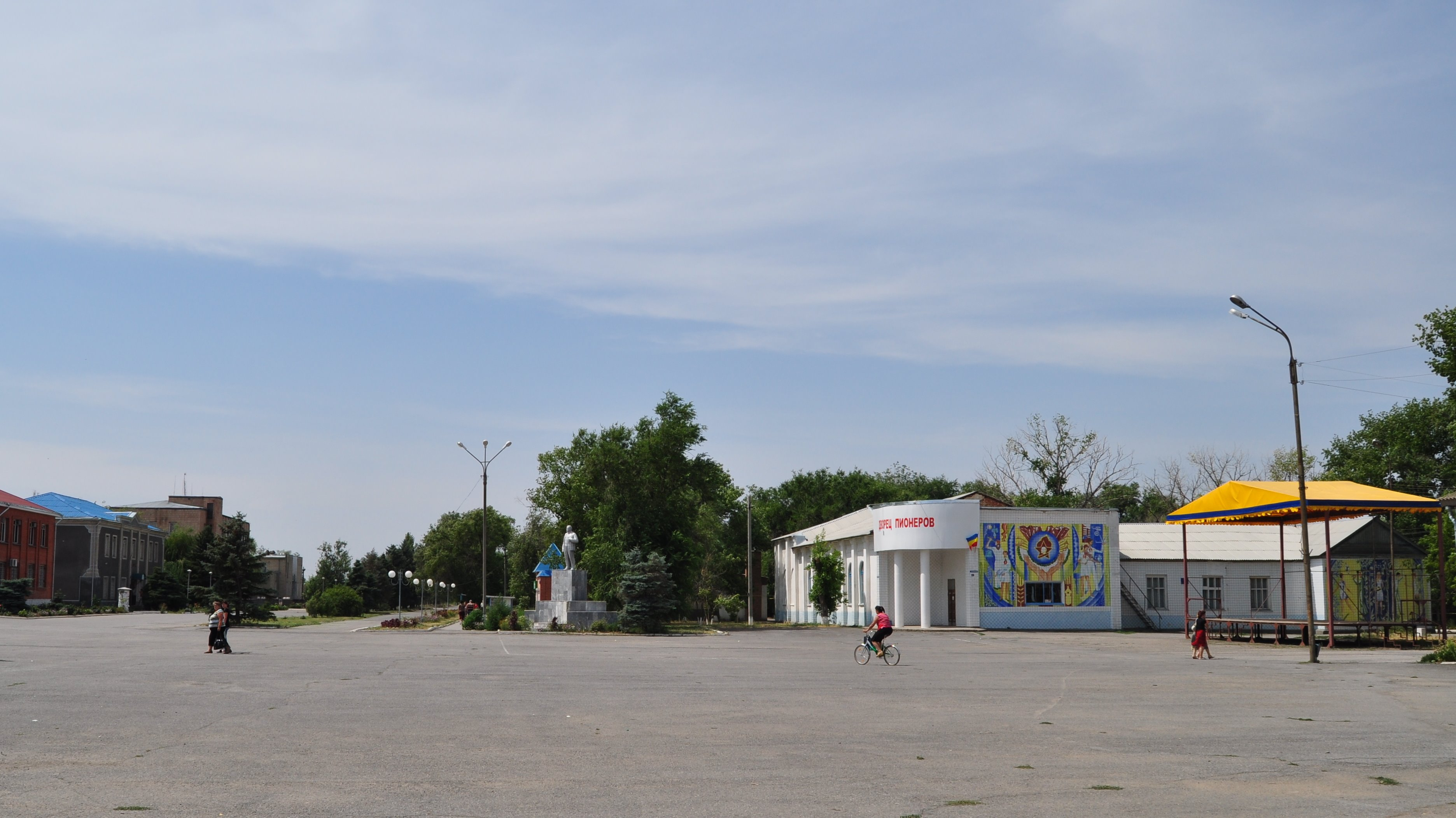 Zimovniki. the Central square with the Palace of pioneers